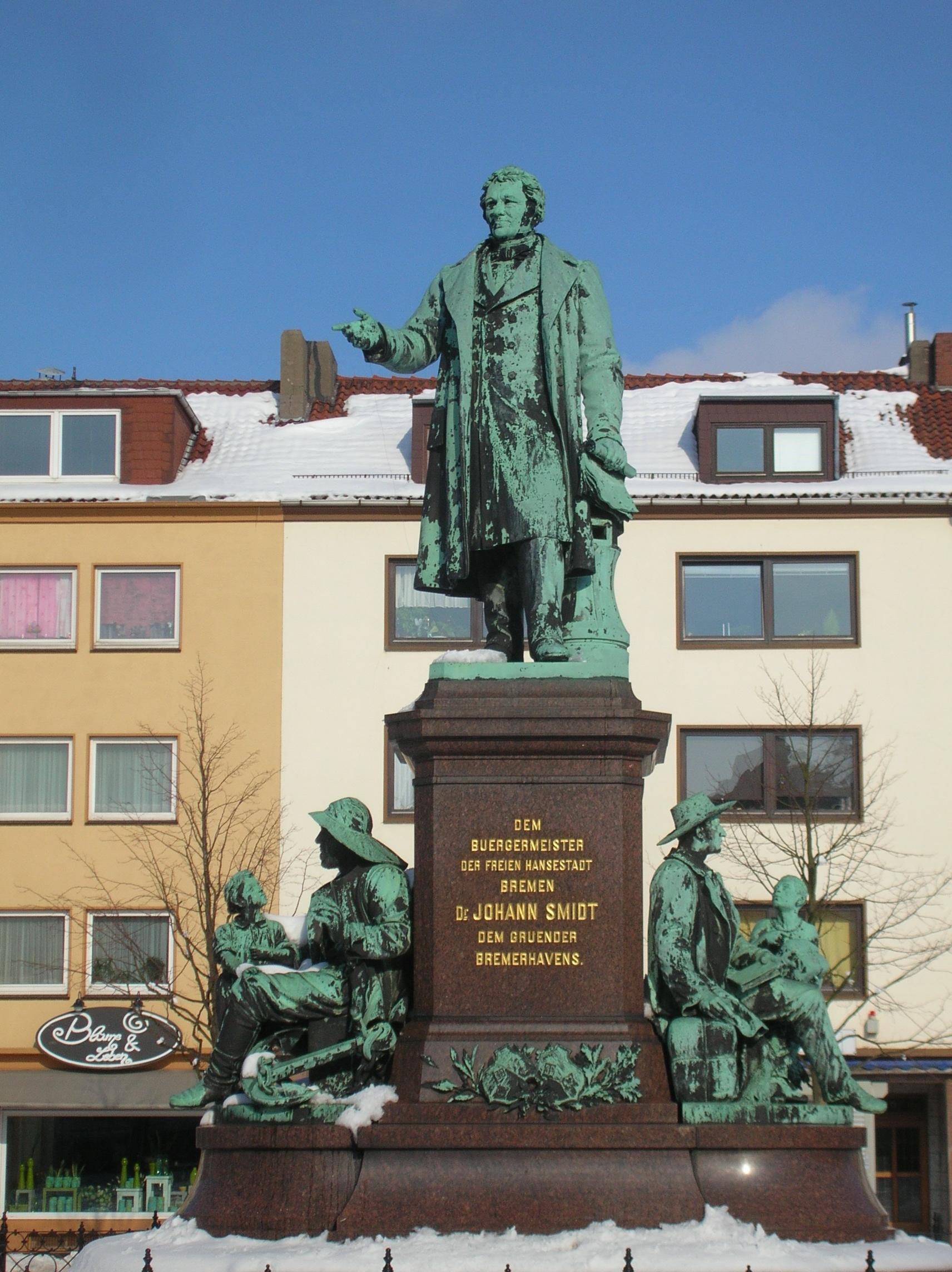 Johann Smidt memorial, Bremerhaven, Germany, sculpted by Werner Stein, 1888